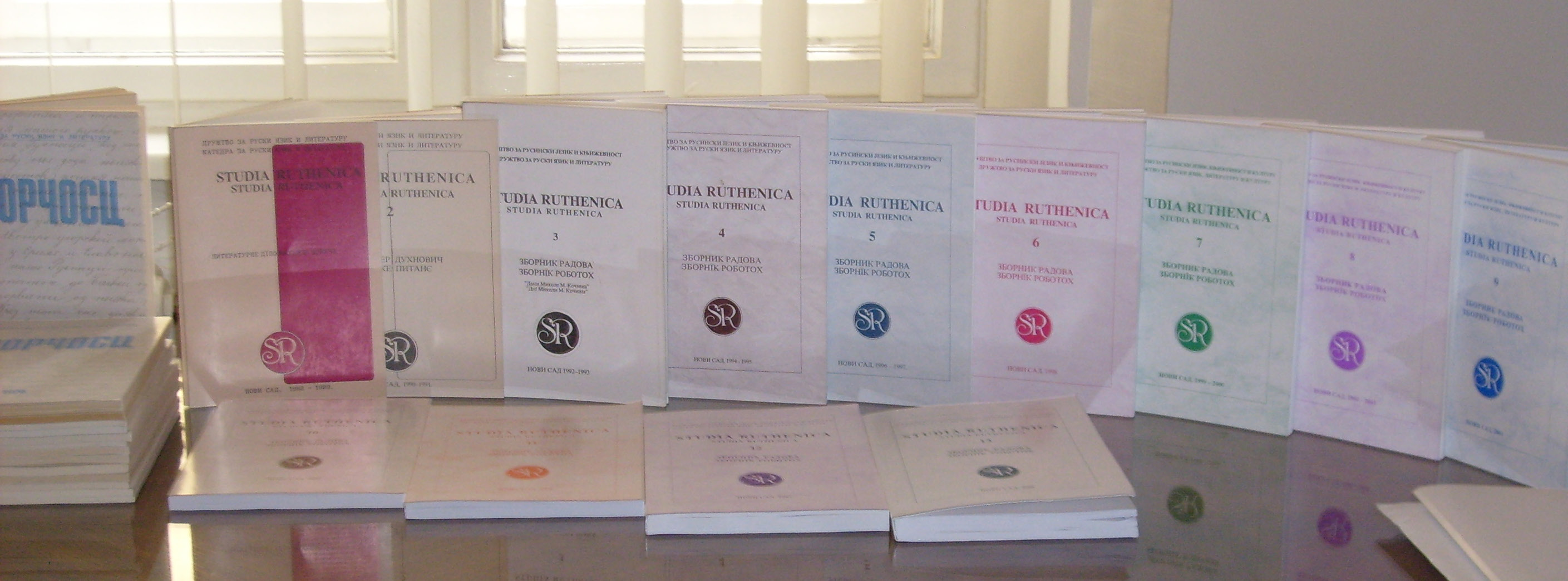 Scientific journal Studia Ruthenica, Novi Sad, Serbia